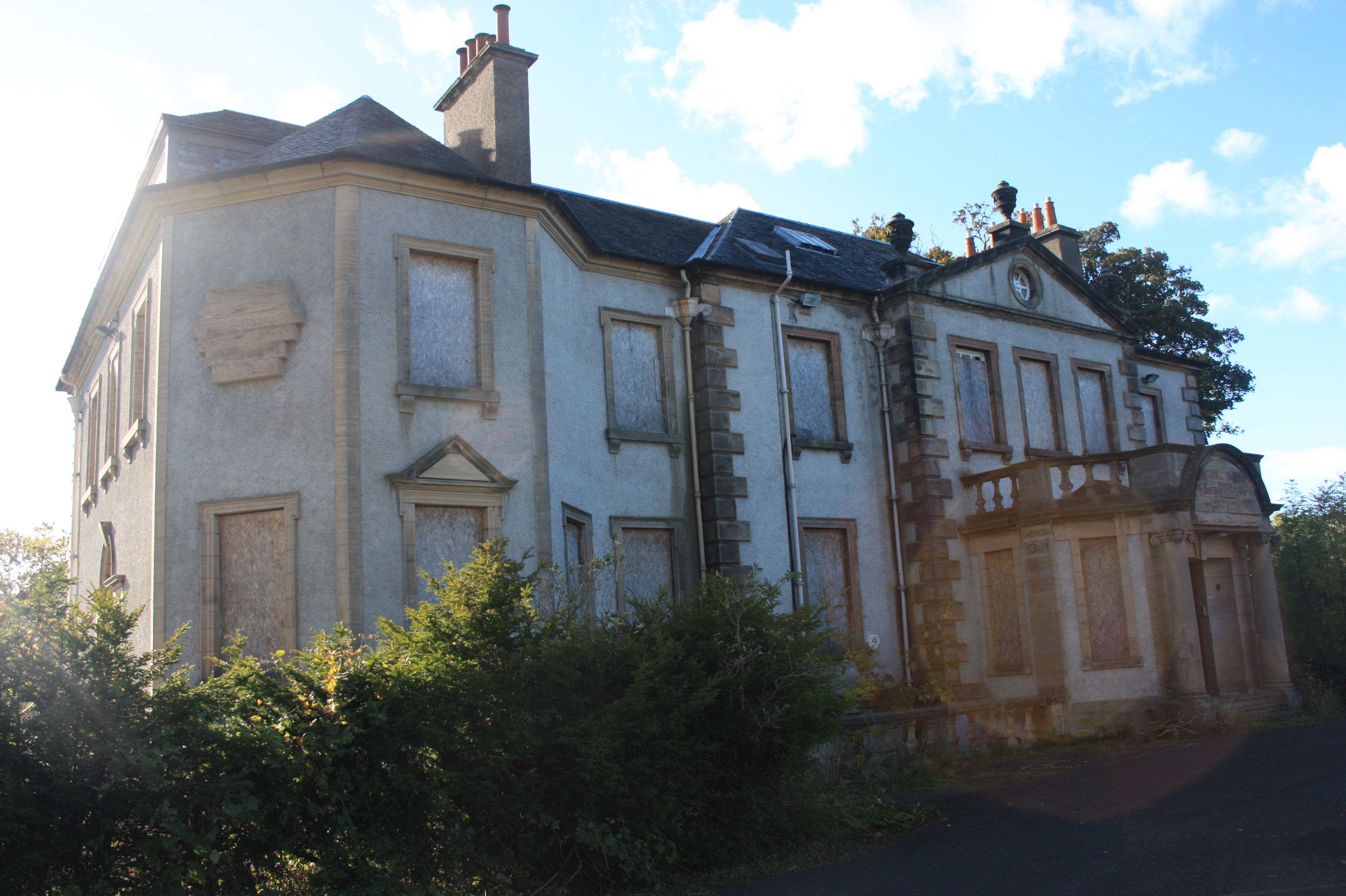 Redhall House, Edinburgh, in 2018